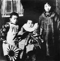 A photograph of a birthday of 1 year old of Yasuhiro Nakasone.